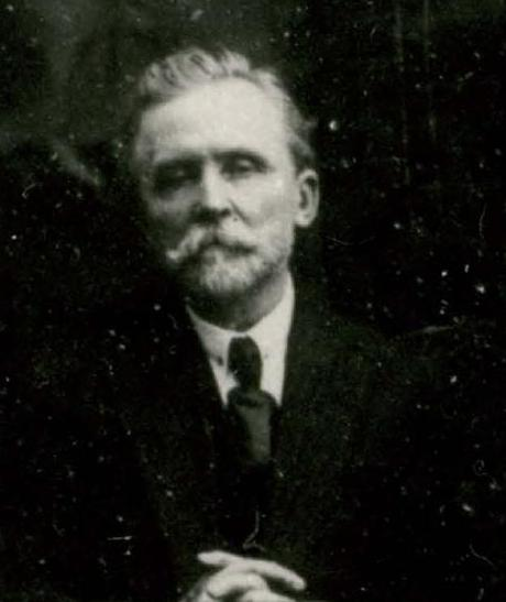 Cezary Russjan